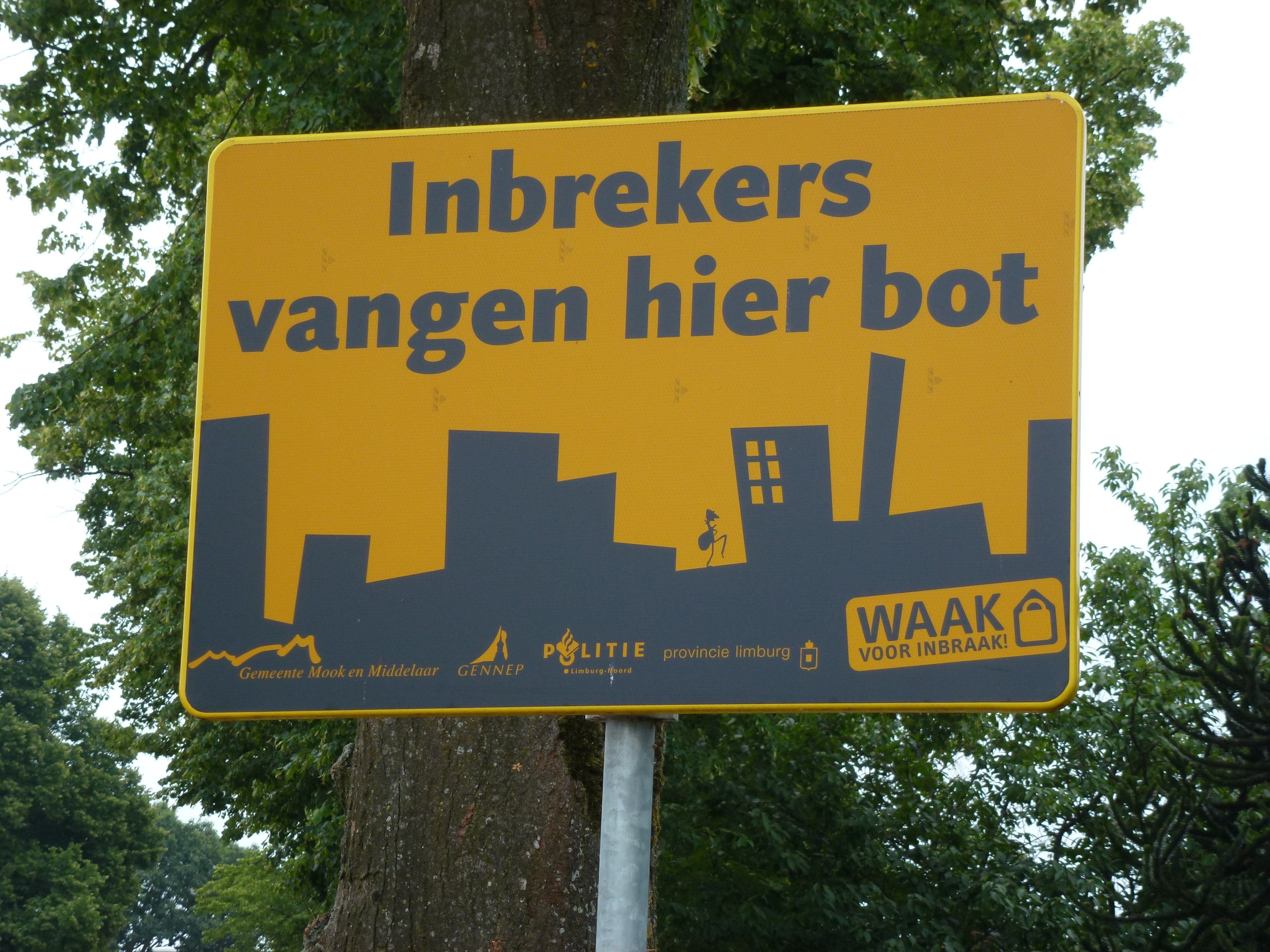 Ottersum (Gennep), bord inbrekers vangen hier bot